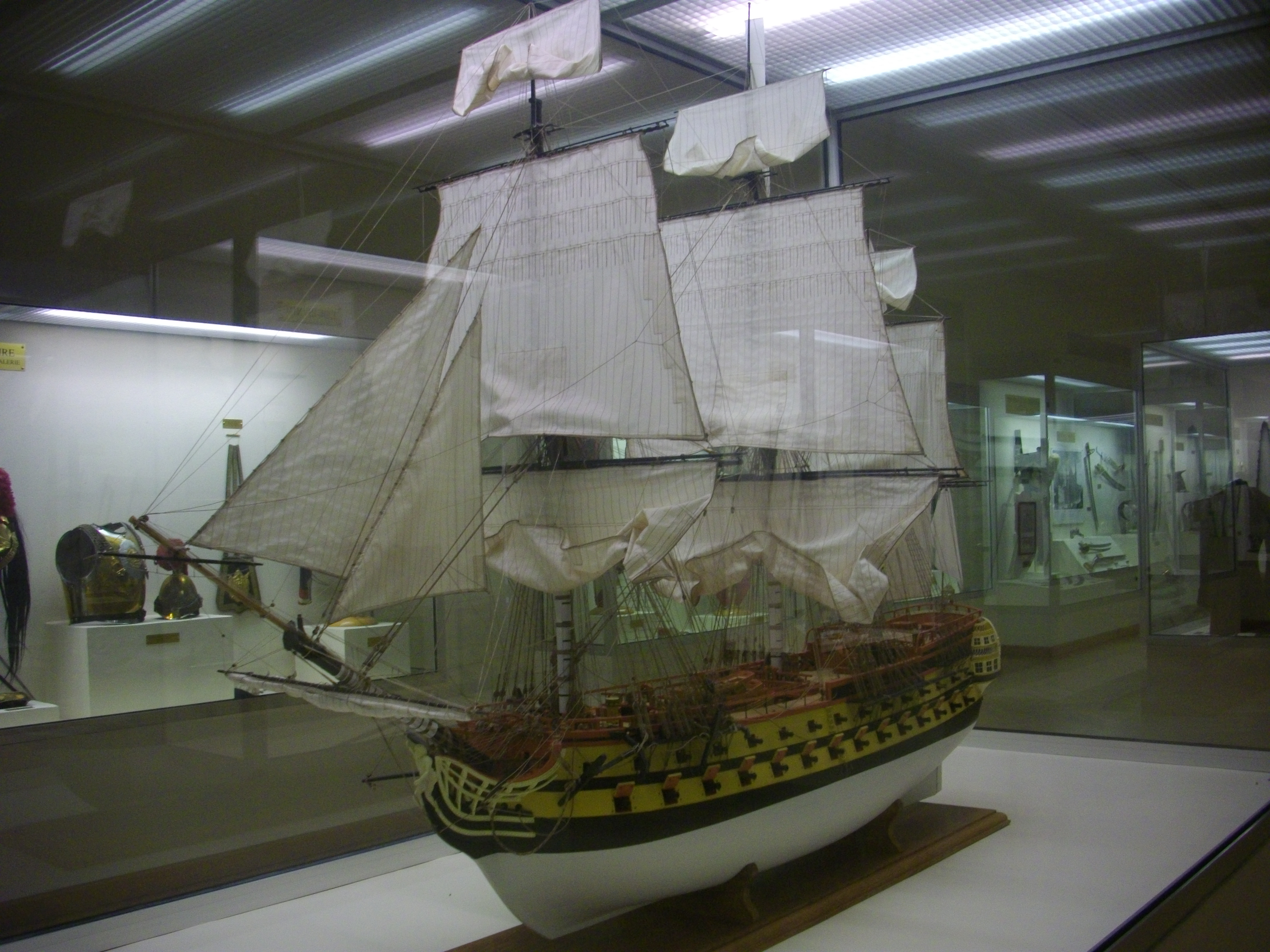 Saint Remi museum of Reims (Marne, France) ; miltary room, model of the Neptune